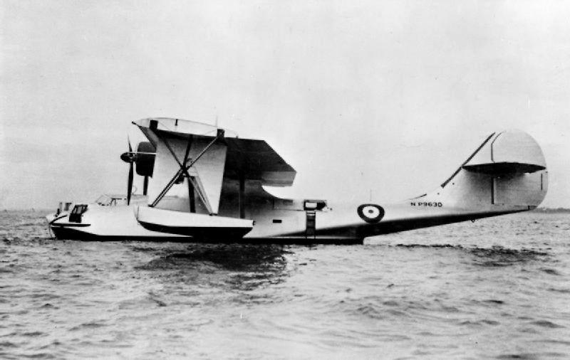 A Consolidated Model 28-5 (P9630) moored at Felixstowe, Suffolk (UK), shortly after joining the Marine Aircraft Experimental Establishment for trials in July 1939. P9630 subsequently flew with Nos. 228, 240 and 210 Squadrons RAF on a number of early long-range reconnaissance sorties before returning to the MAEE with whom it was written off in a landing accident at Dumbarton in February 1940. The 'N' prefix in front of the serial number was applied by the United States Civil Aeronautics Administration for ferrying purposes.